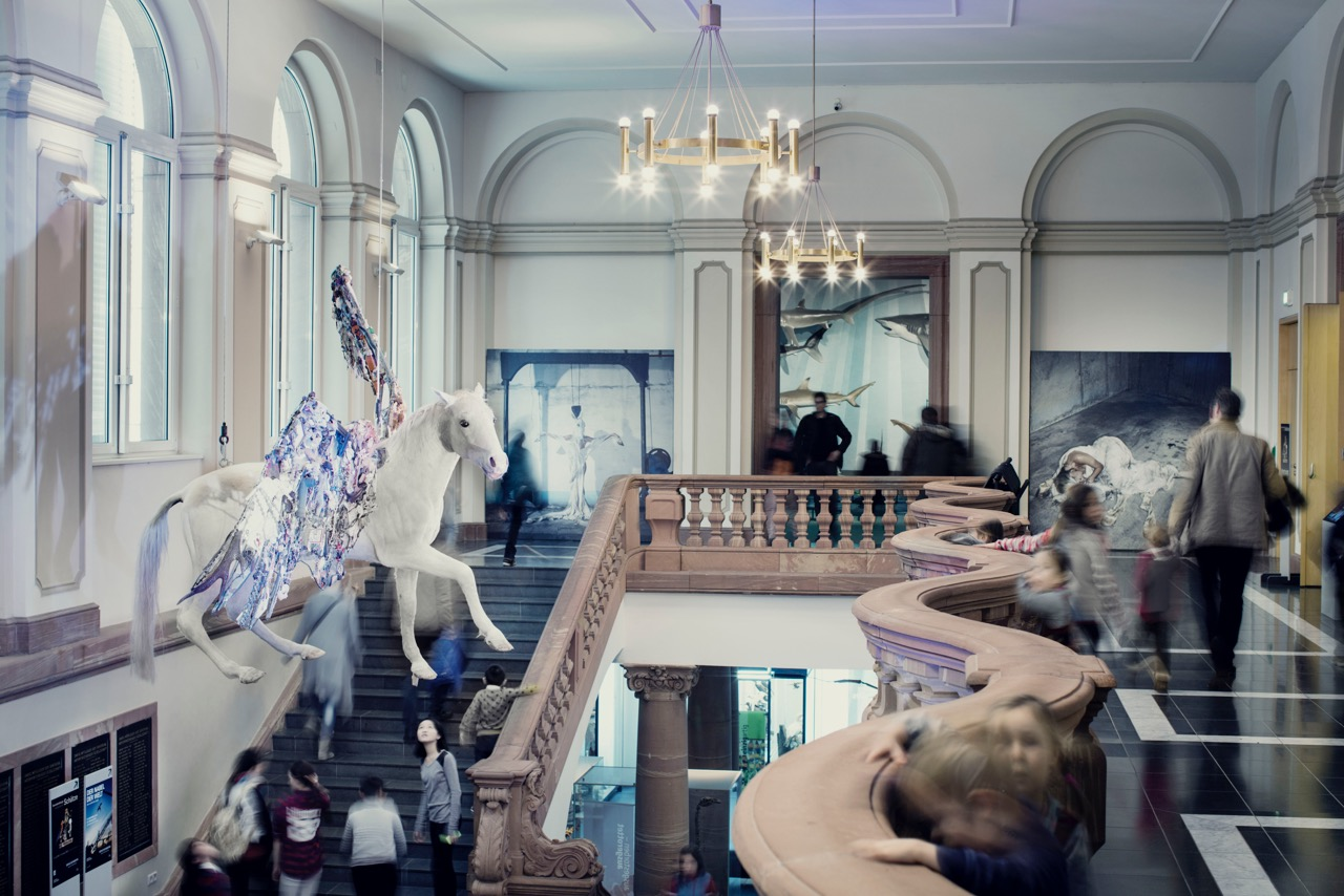 Mia Florentine Weiss Exhibition View Senckenberg Museum